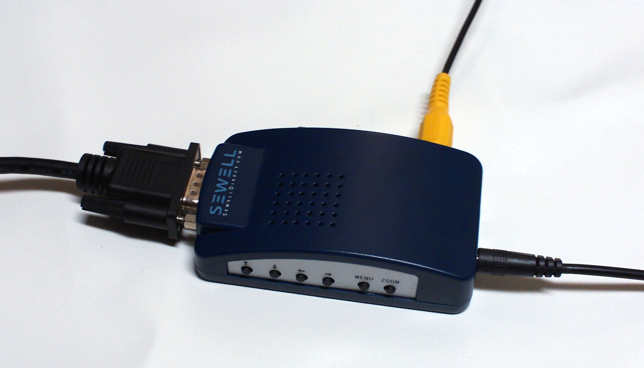 Photo of a Sewell SW-22050 scan converter. It converts VGA (left) to composite (top) and S-Video (not pictured), using 5 V from a USB port (right). At front are buttons to control the positioning and size of the converted picture.